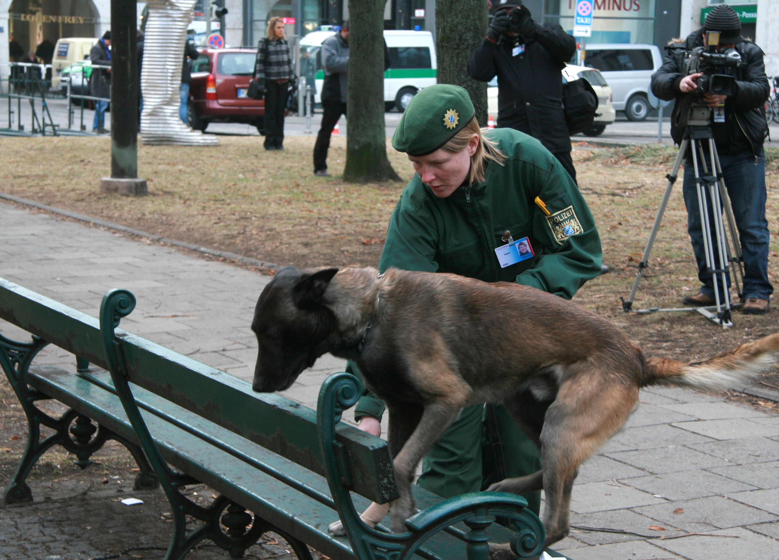 45th Munich Security Conference 2009: Security checks before the conference.